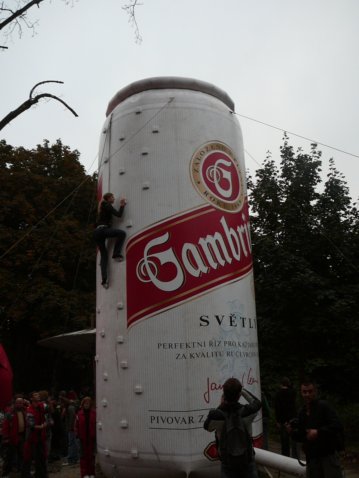 Inflatable can Gambrinus on the Gaudeamus Igitur in Brno.